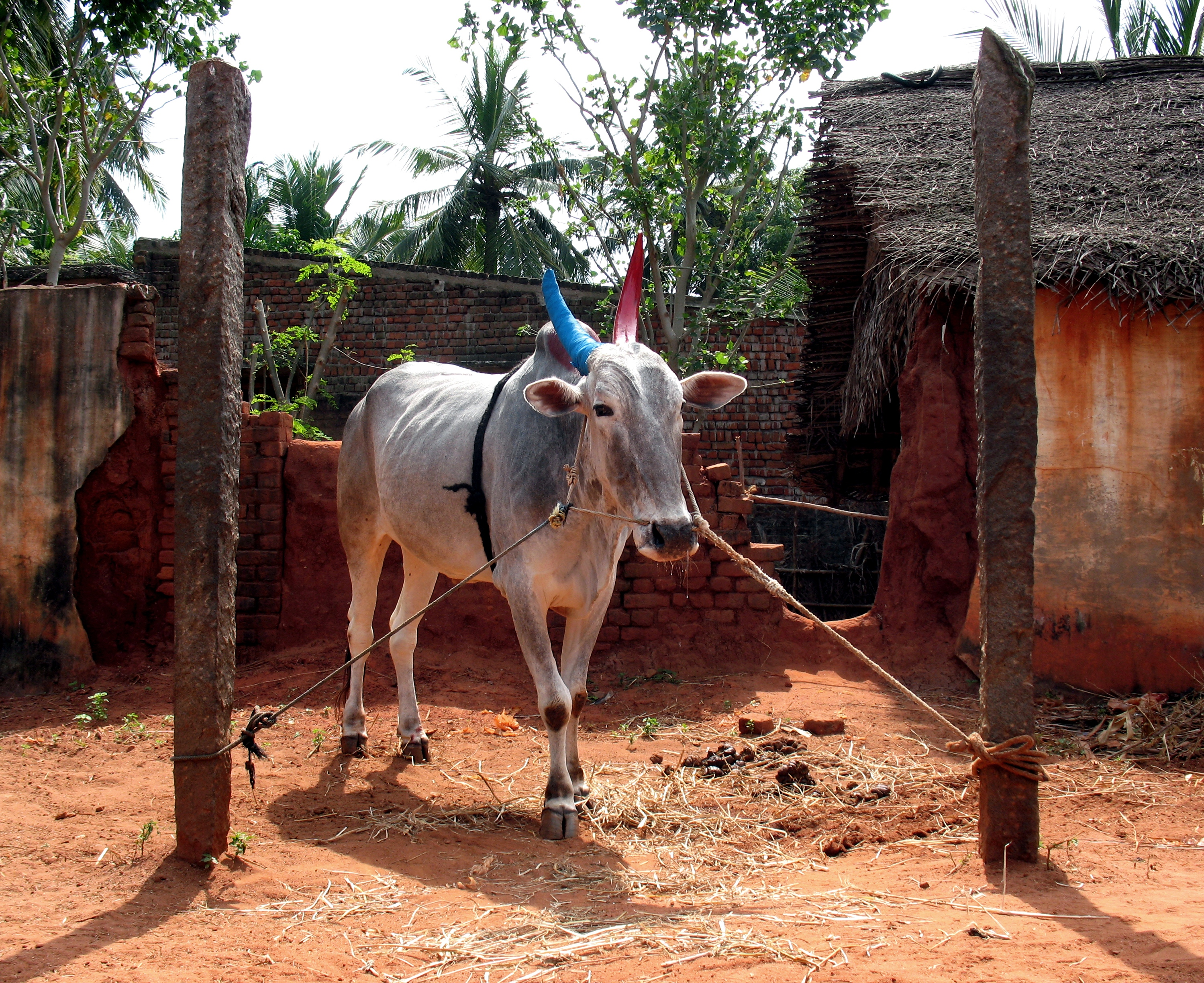 A cow with horns painted for the Tamil festival of Pongal in a Puducherry village.